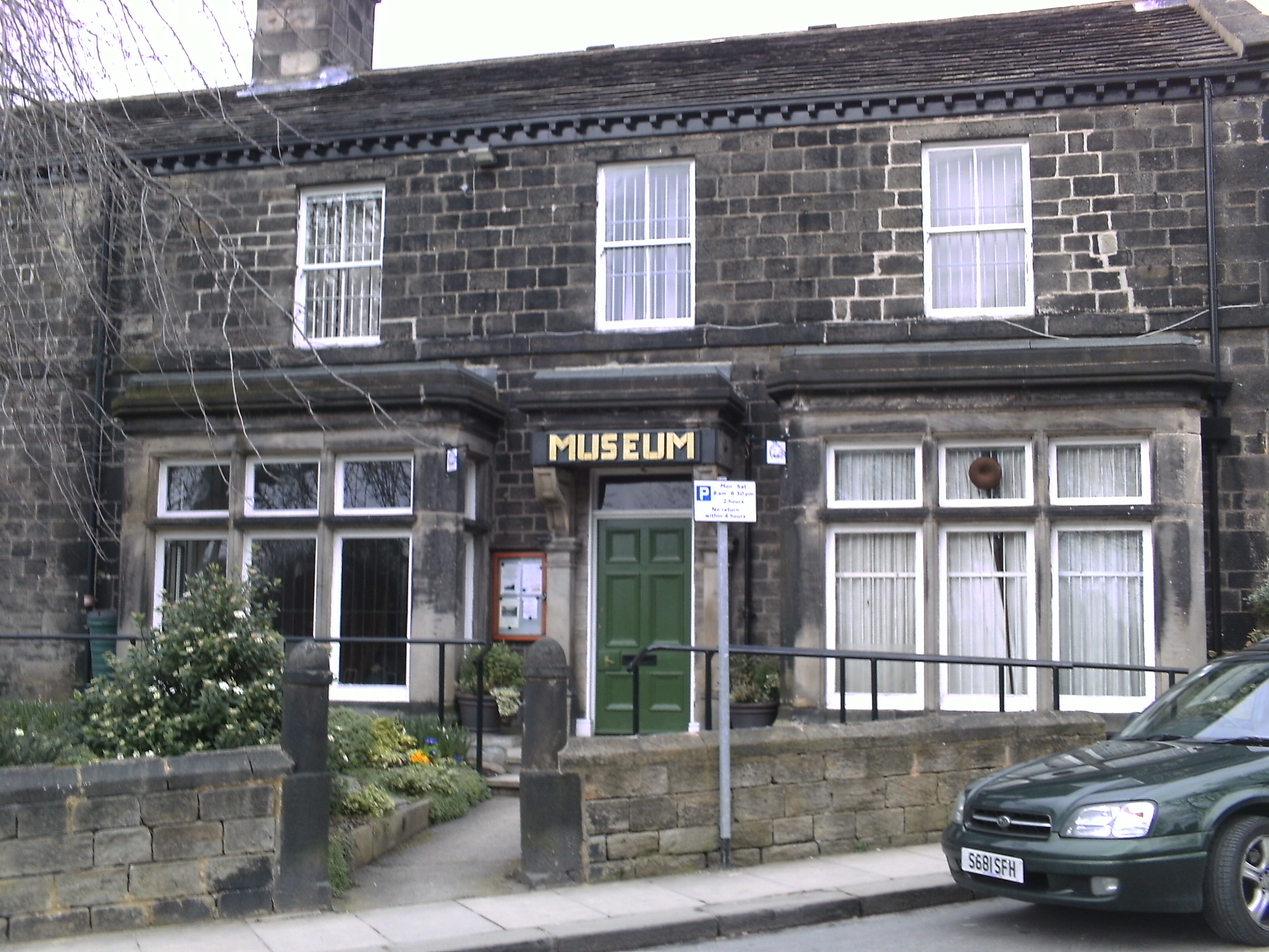 Horsforth Museum, Town Street, Horsforth